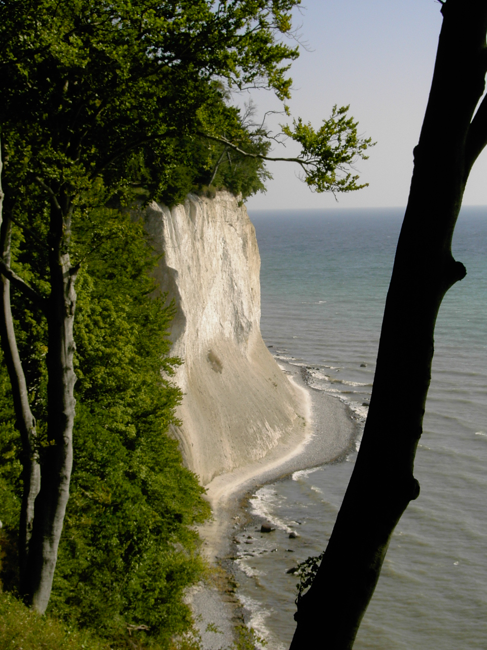 chalk cliffs in national park Jasmund on Rügen